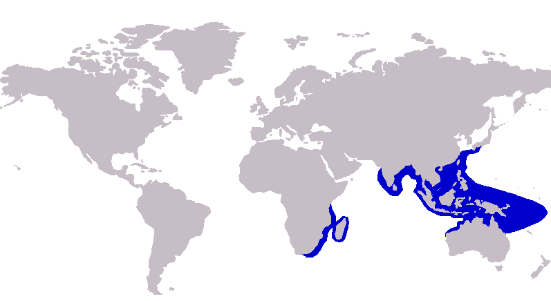 Distribution of tille trevally, Caranx tille using map based on GDFL image